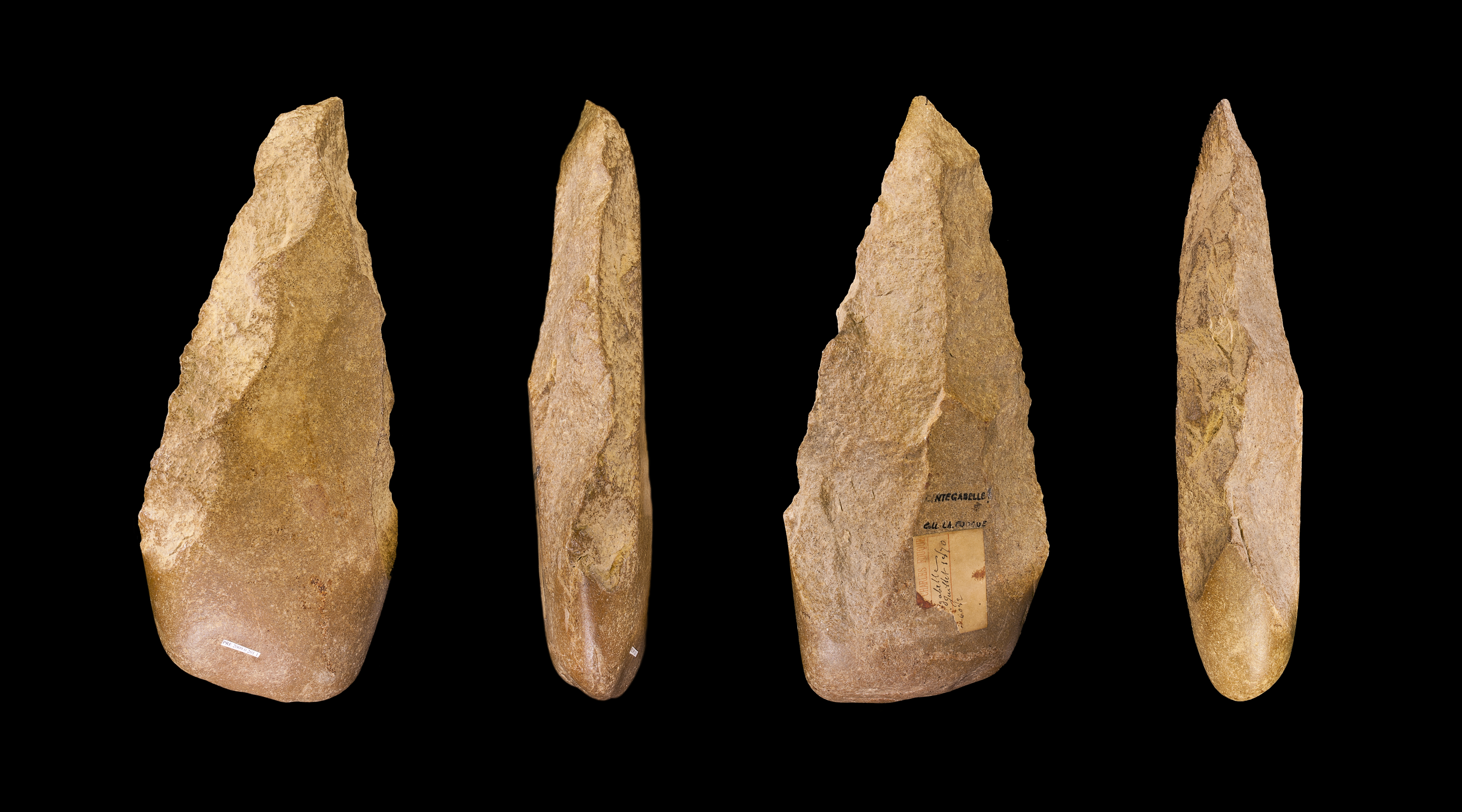 Biface - Different views of the same specimen